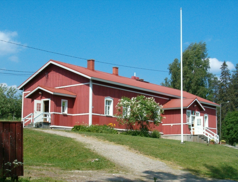 Pitäjäntupa Needlework Centre and Tourist Information in Heinävesi, Finland